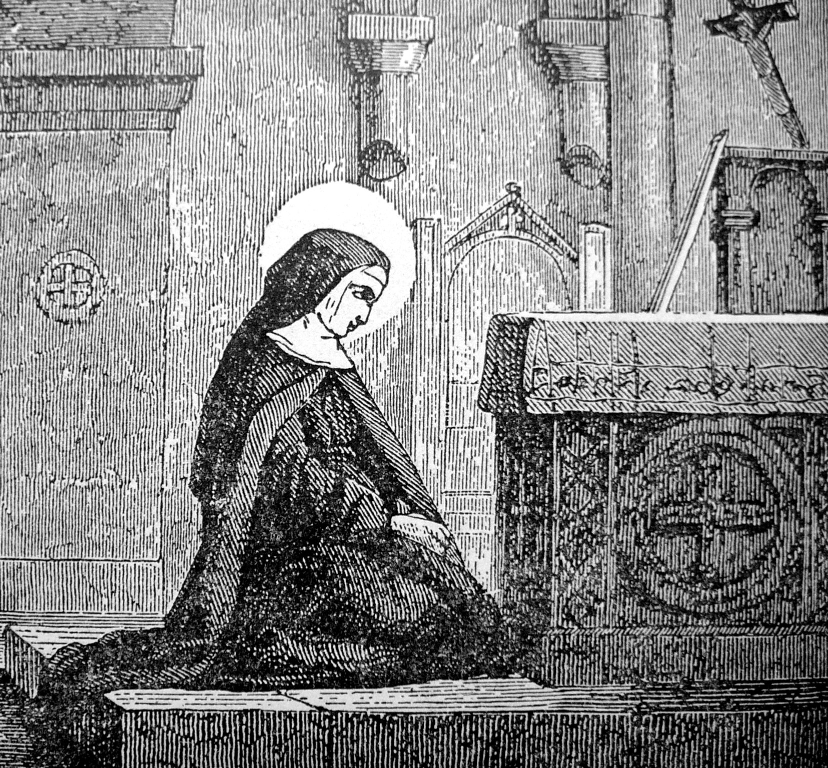 Saint Æthelthryth (Etheldreda)